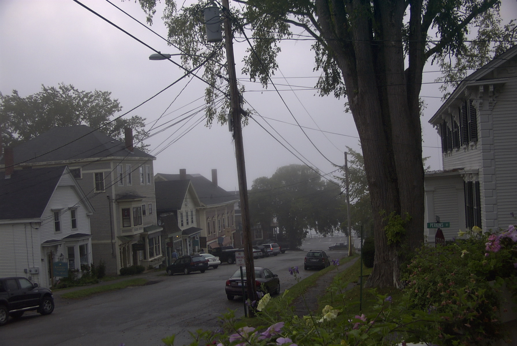 Taken by me.